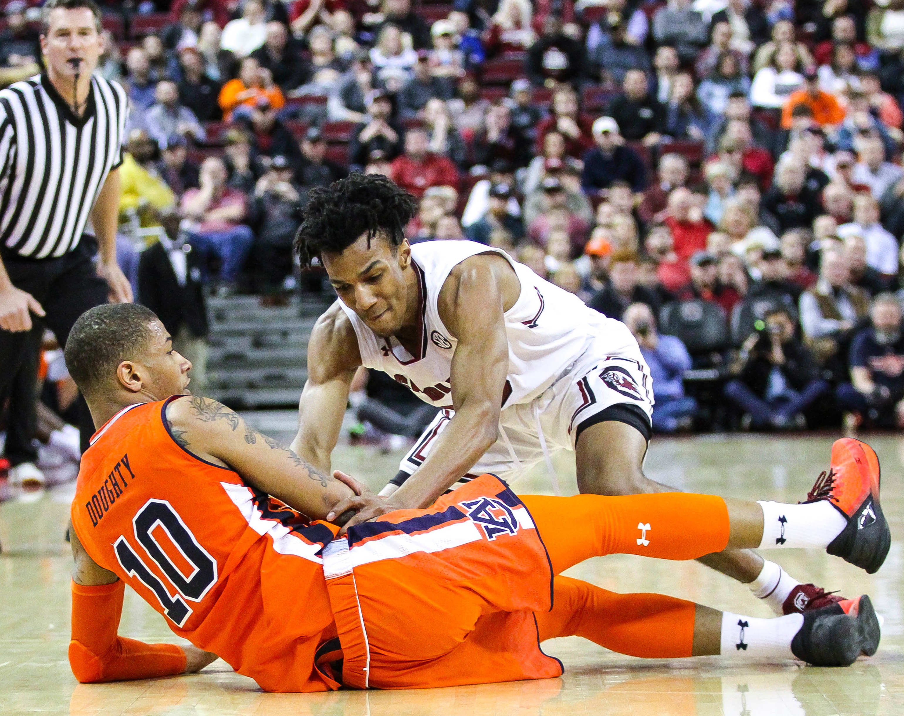 Samir Doughty fights for the ball with AJ Lawson